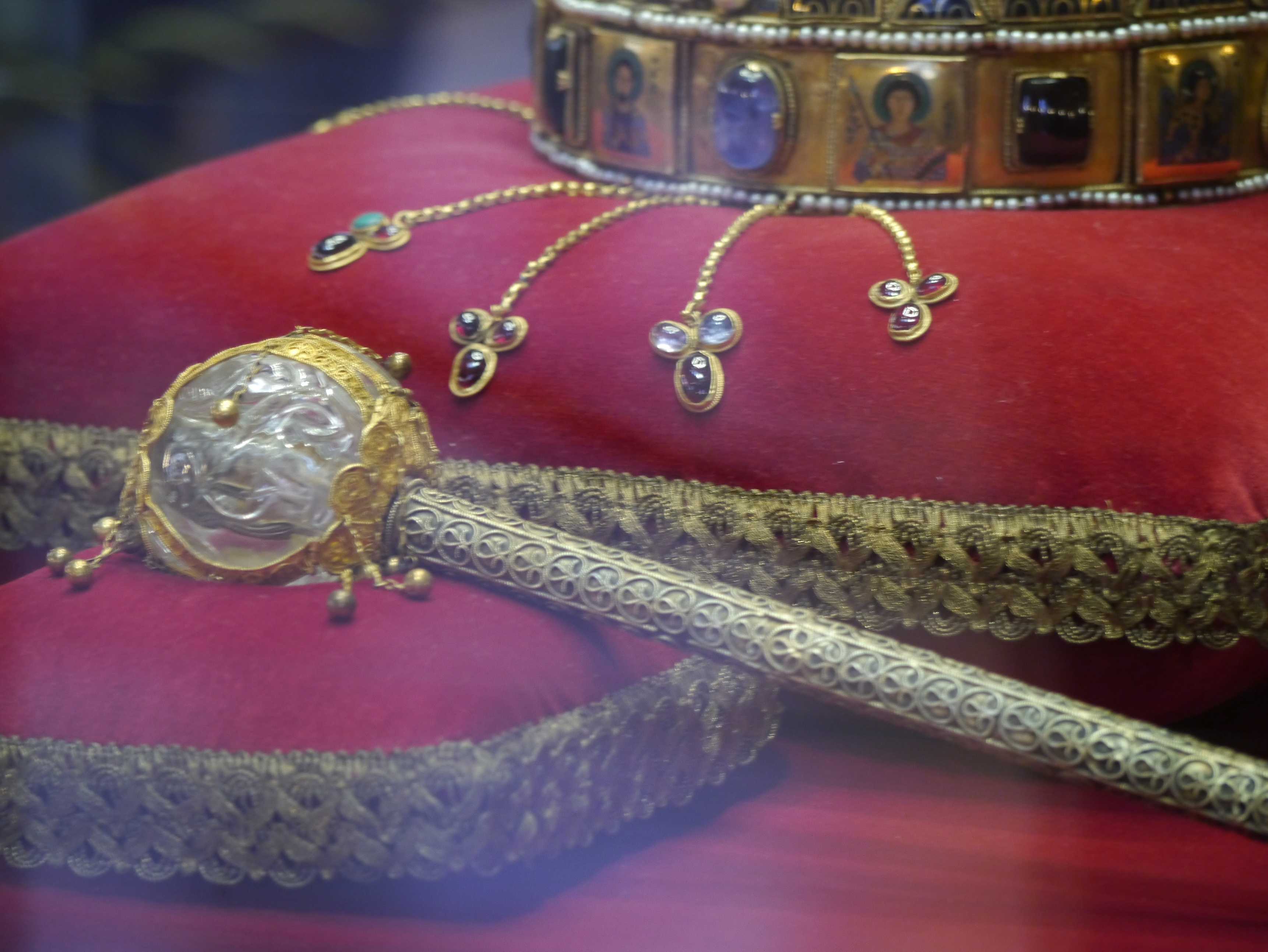 King's sceptre at the Dome hall of the Parliament building, Budapest, Northern Hungary